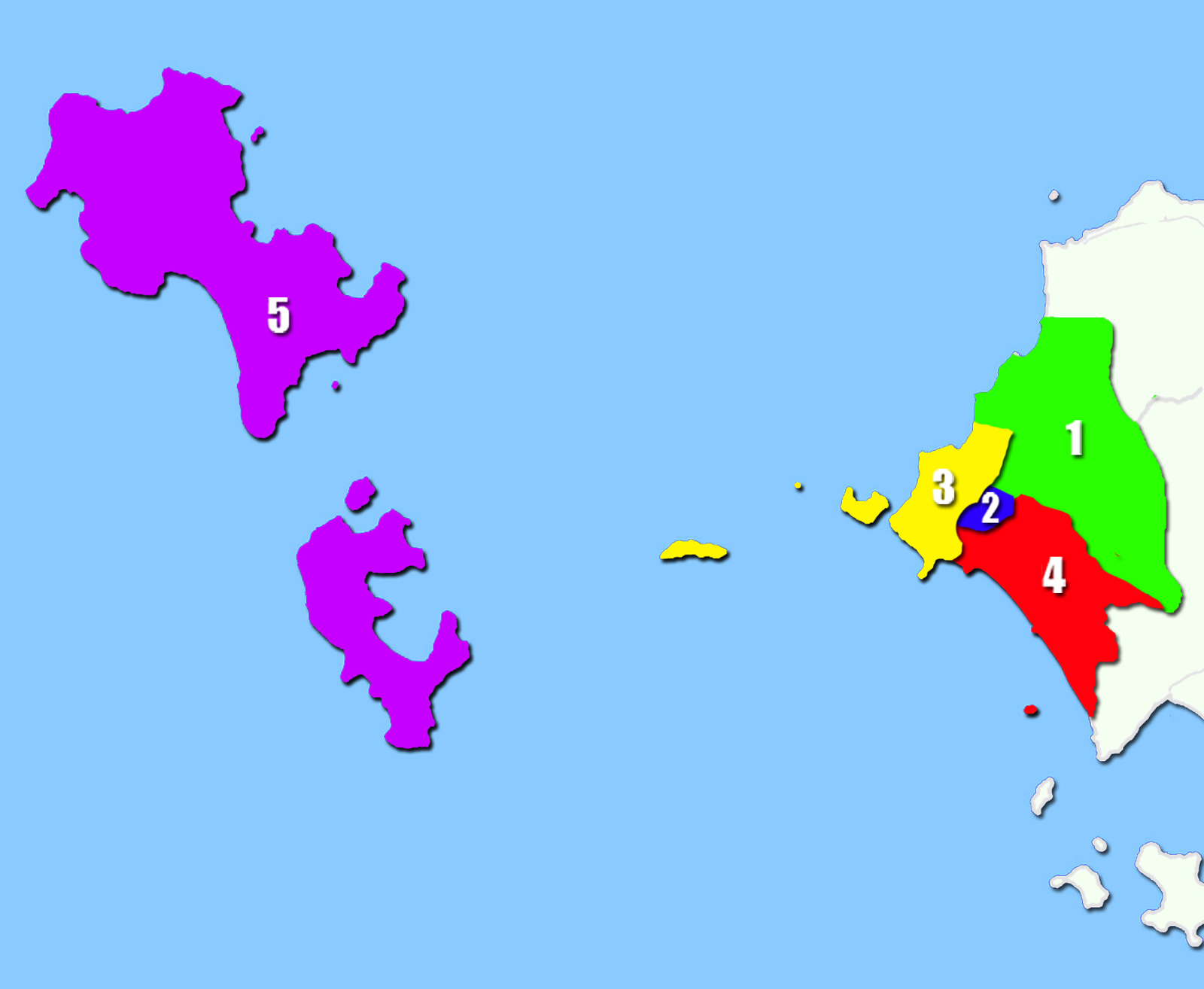 Sihanoukville Mittakpheap District, highlighting five communes